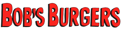 Bob's Burgers's logo.